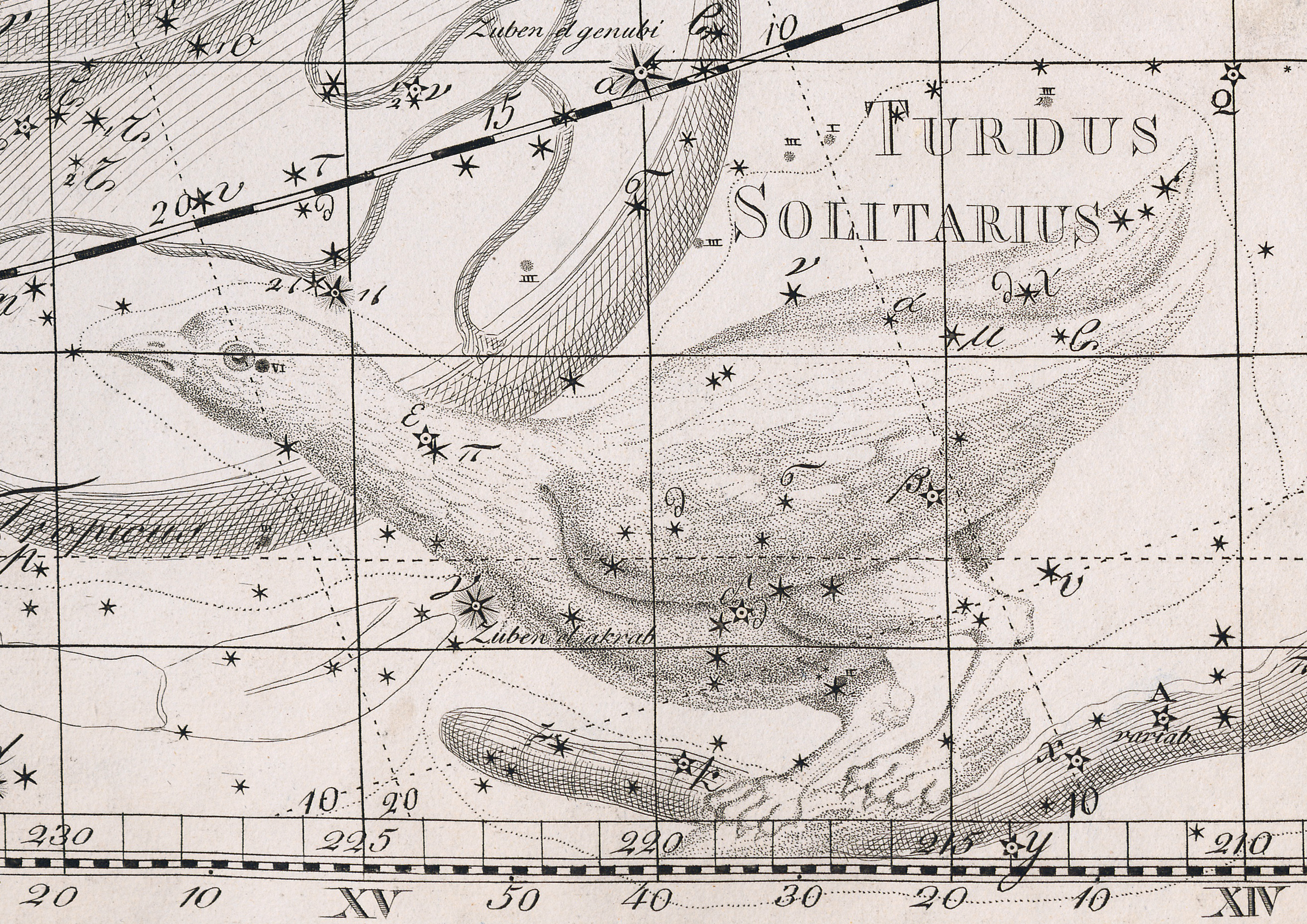 Turdus Solitarius shown on the Uranographia of Johann Bode (1801).